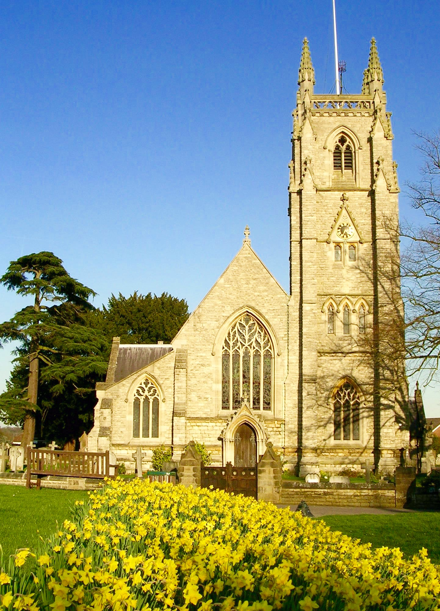 St Thomas of Canterbury paris church, Northaw, Hertfordshire, seen from the west